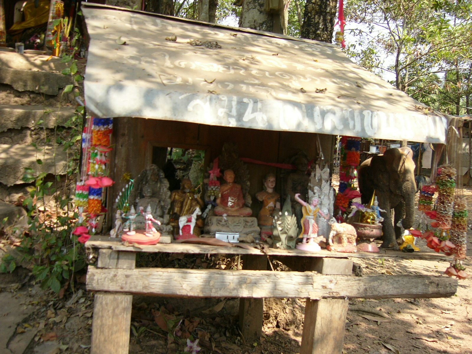 Simple spirit house at Wat Kham Chanot near Ban Dung, Udon Thani province, Thailand.